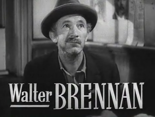 Cropped screenshot of Walter Brennan from the trailer for the film Meet John Doe